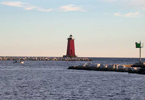 Manistique Harbor Light in Manistique, Michigan.